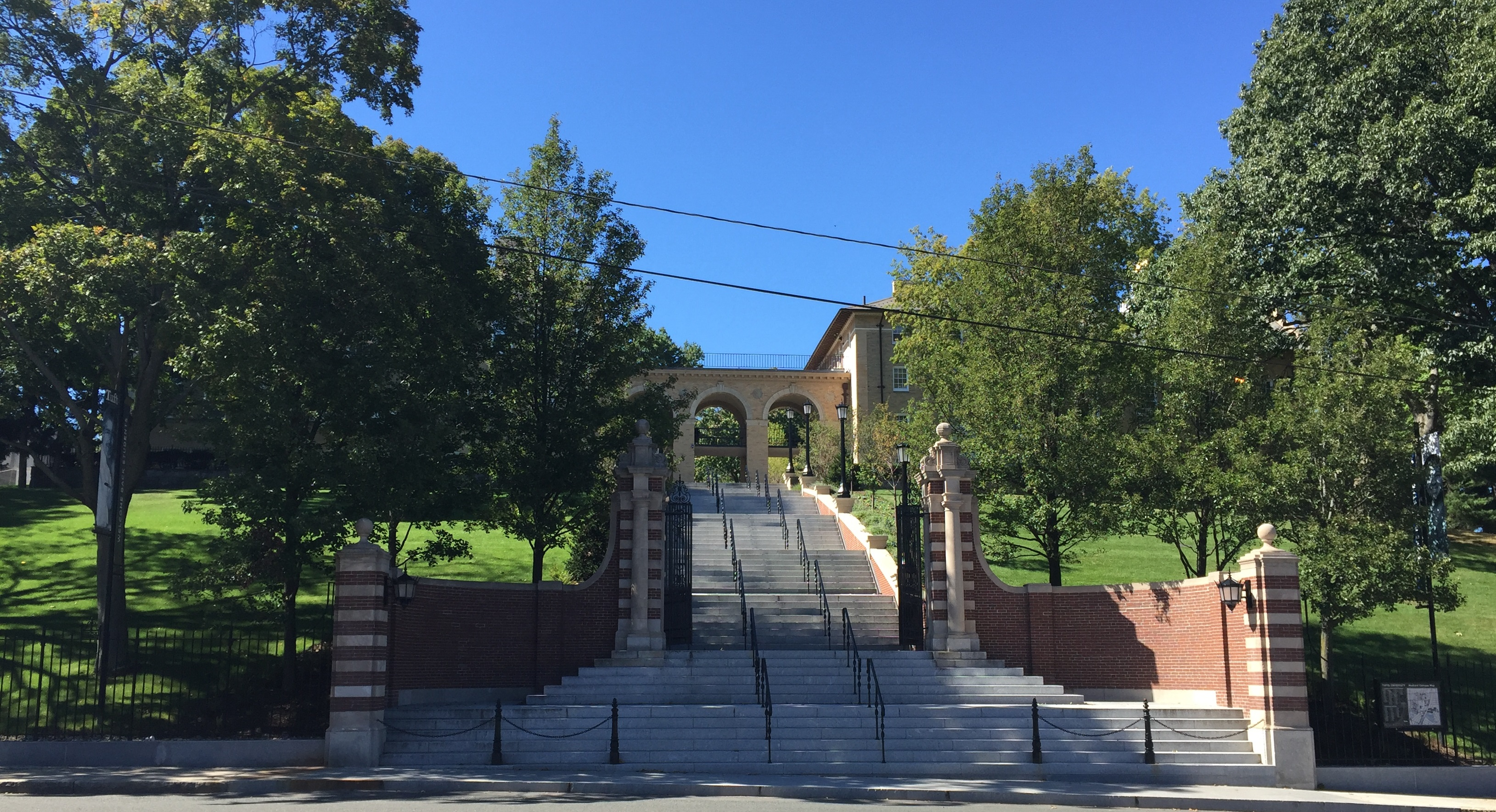 Tufts Memorial Steps looking up from College Avenue